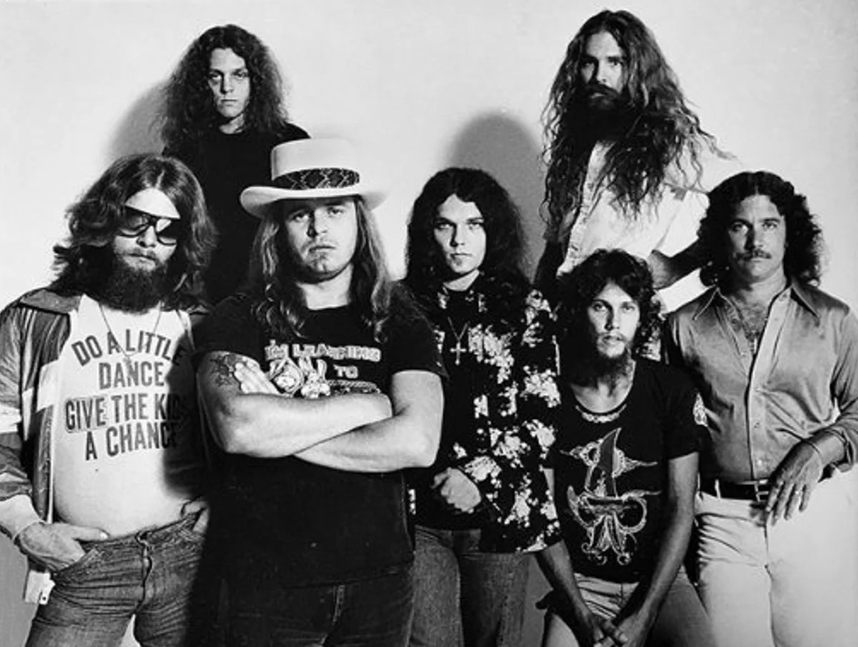 Trade ad for Lynyrd Skynyrd's single "What's your name".To better adapt it to his respective Wikipedia article, the ad was cropped and cleaned in a graphics editing program. The original can be viewed at the source below.